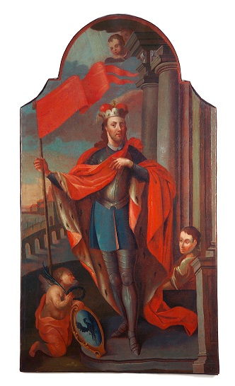 St. Wenceslaus, the paint from XVIII century what was original part of rotuda's interior.